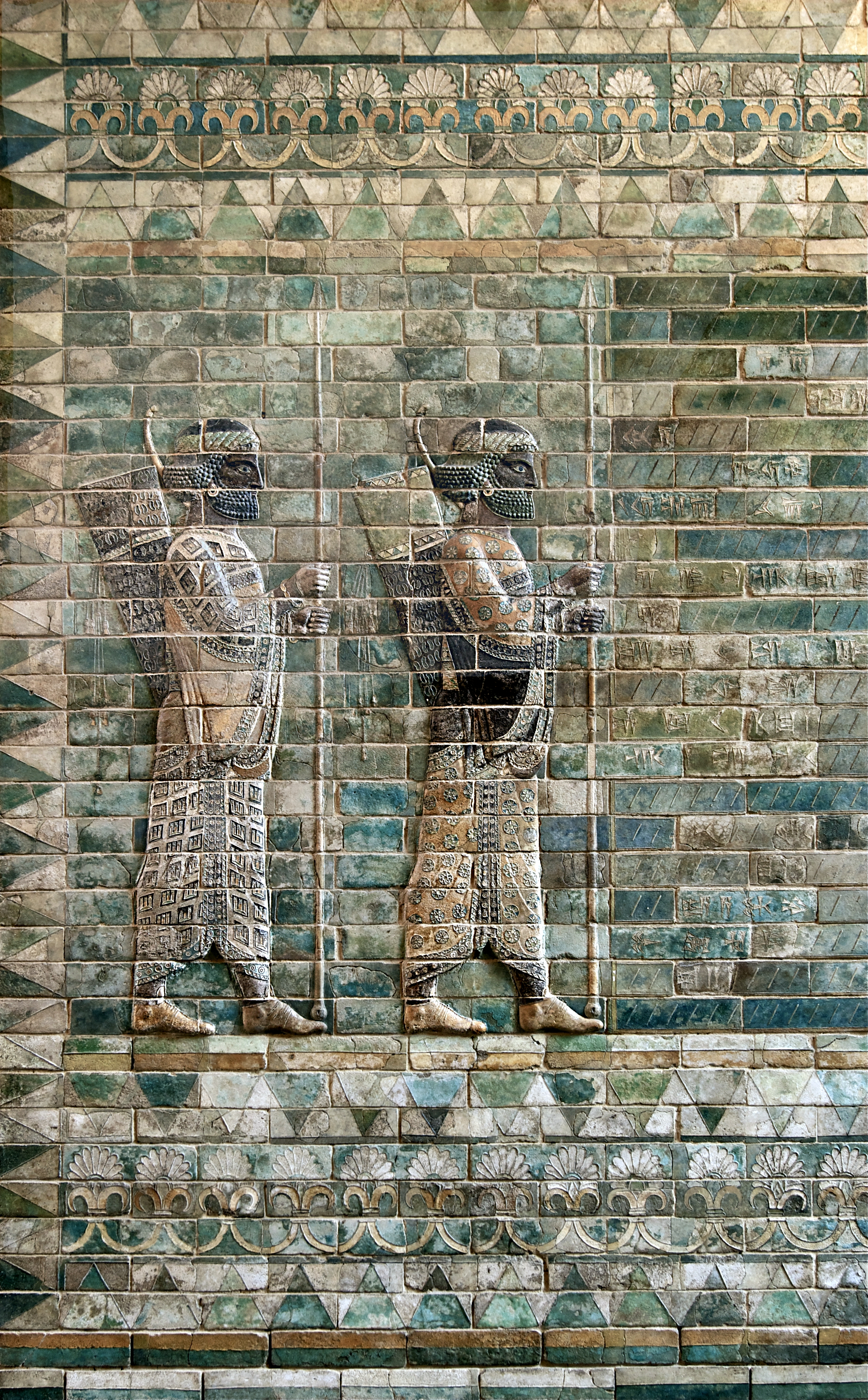 Archers frieze from Darius' palace at Susa. Detail of the beginning of the frieze, left